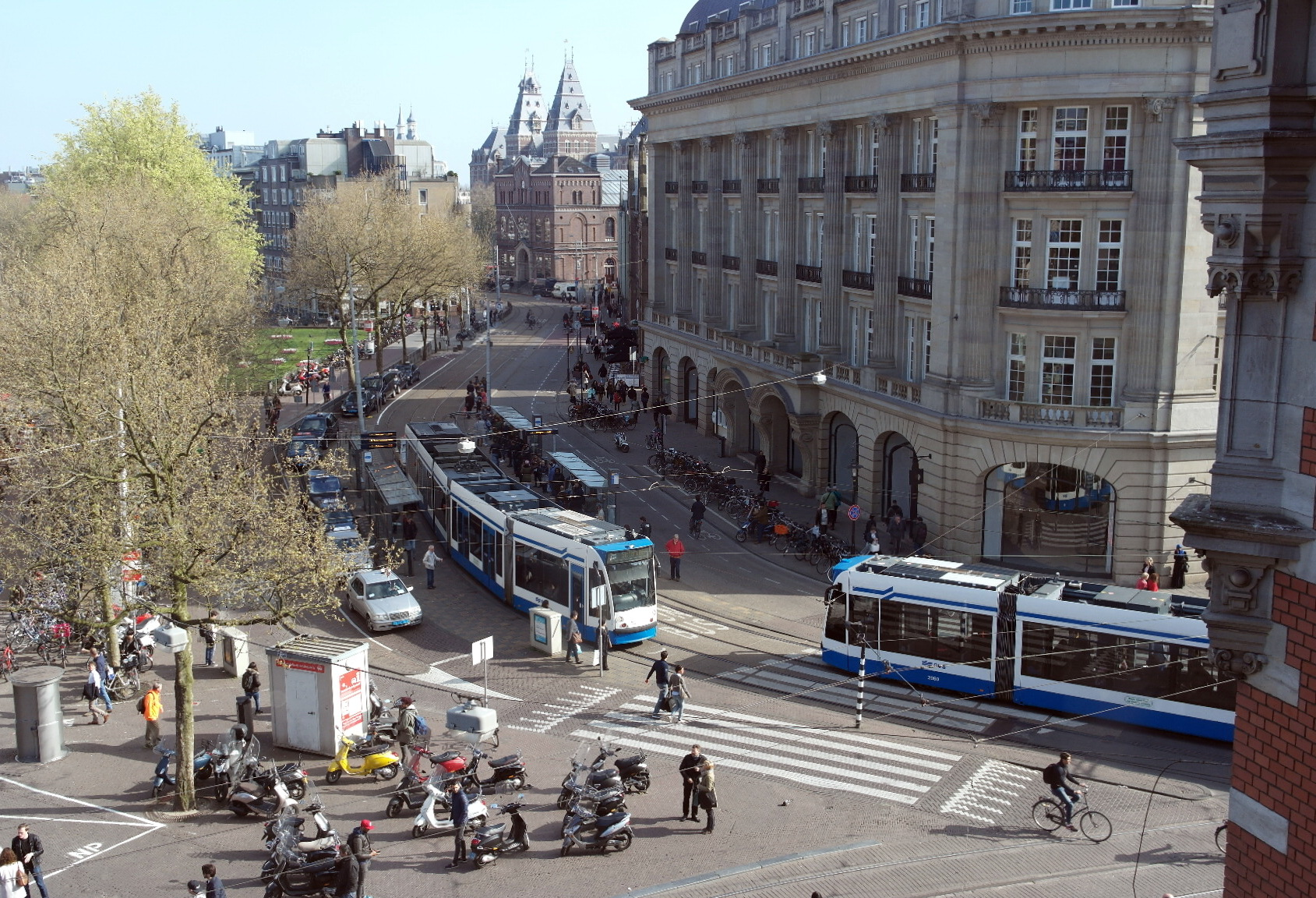 Amsterdam, the Netherlands. View of Leidseplein from Stadsschouwburg, Amsterdam's municipal theatre.